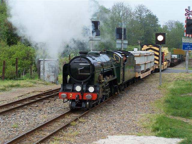 A steam headed freight train passing over the level crossing at Burmarsh Road. This is the Romney, Hythe & Dymchurch Railway in Kent.